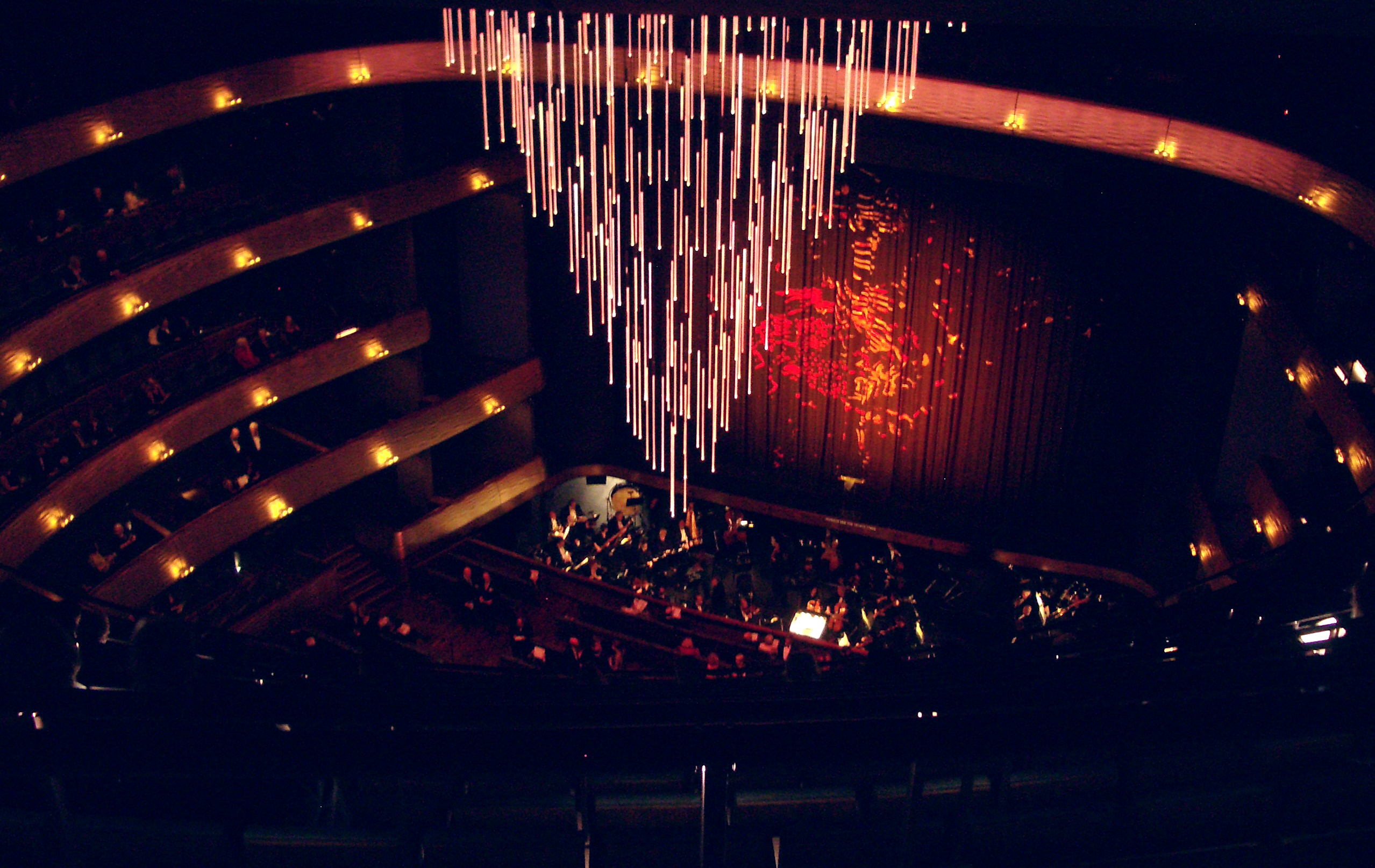 Dallas, Texas: AT&T Performing Arts Center, Margot and Bill Winspear Opera House photographed at the Grand Opening night of Dallas Opera's first season in its new home (23 Oct 2009) Auditorium with chandelier